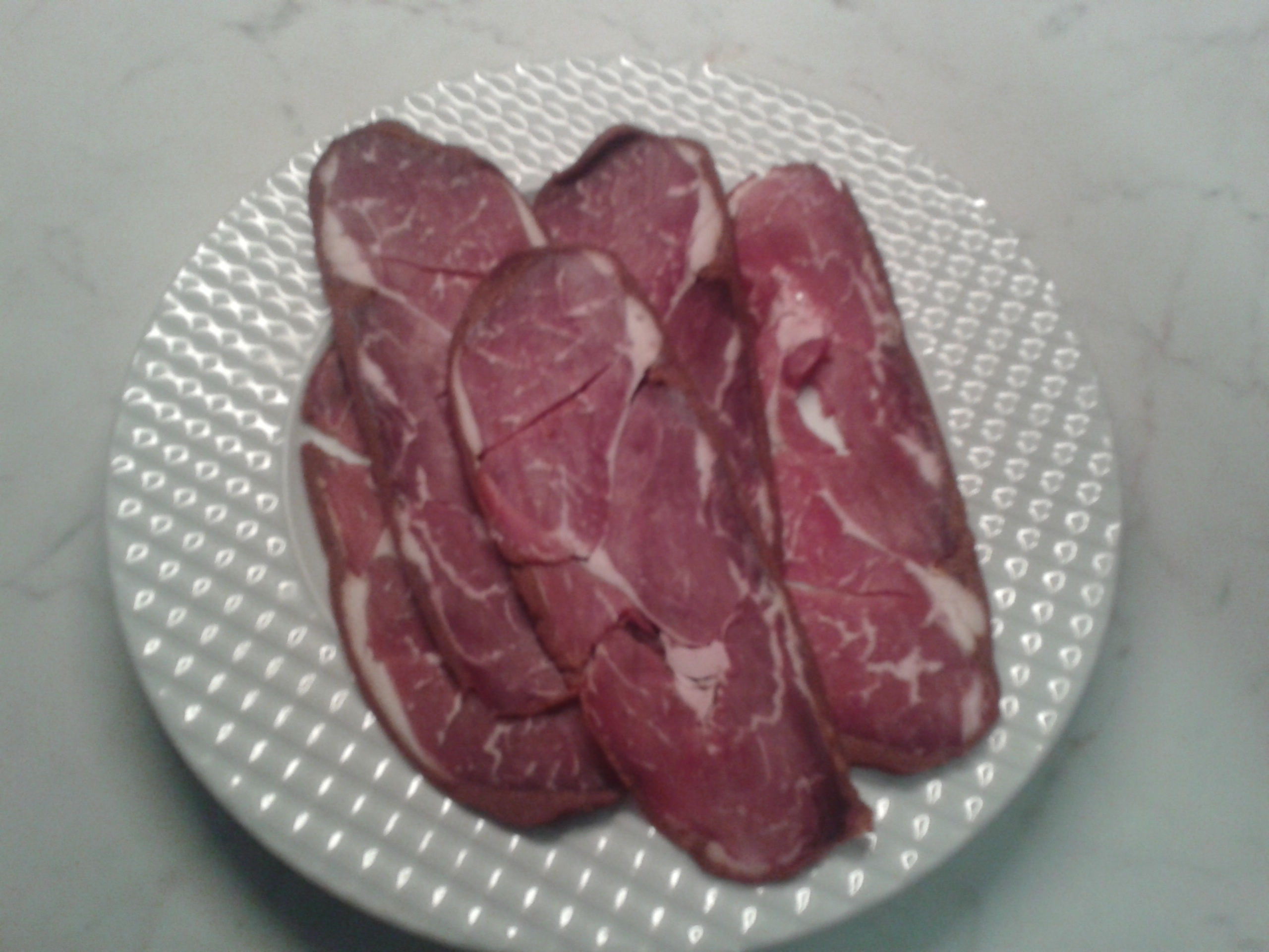 Entrecote pastirma in Turkey.